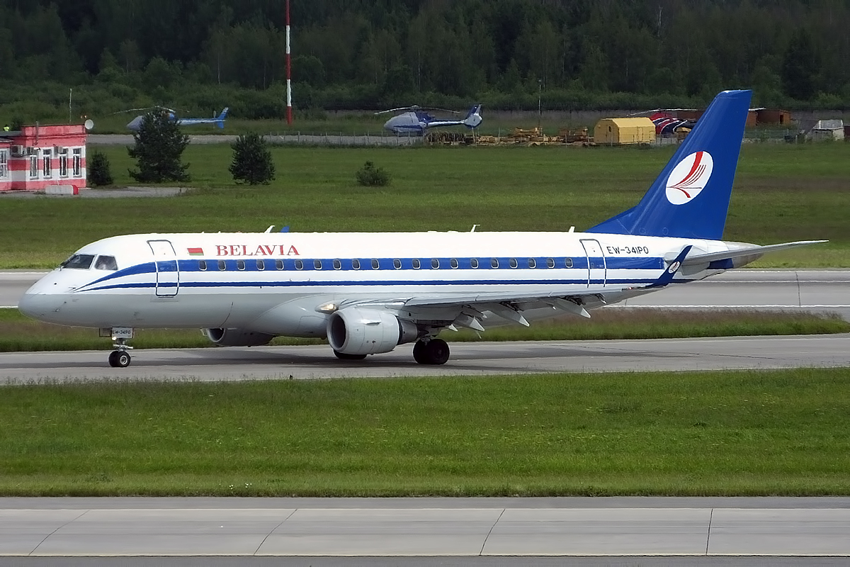 Belavia, EW-341PO, Embraer ERJ-175LR